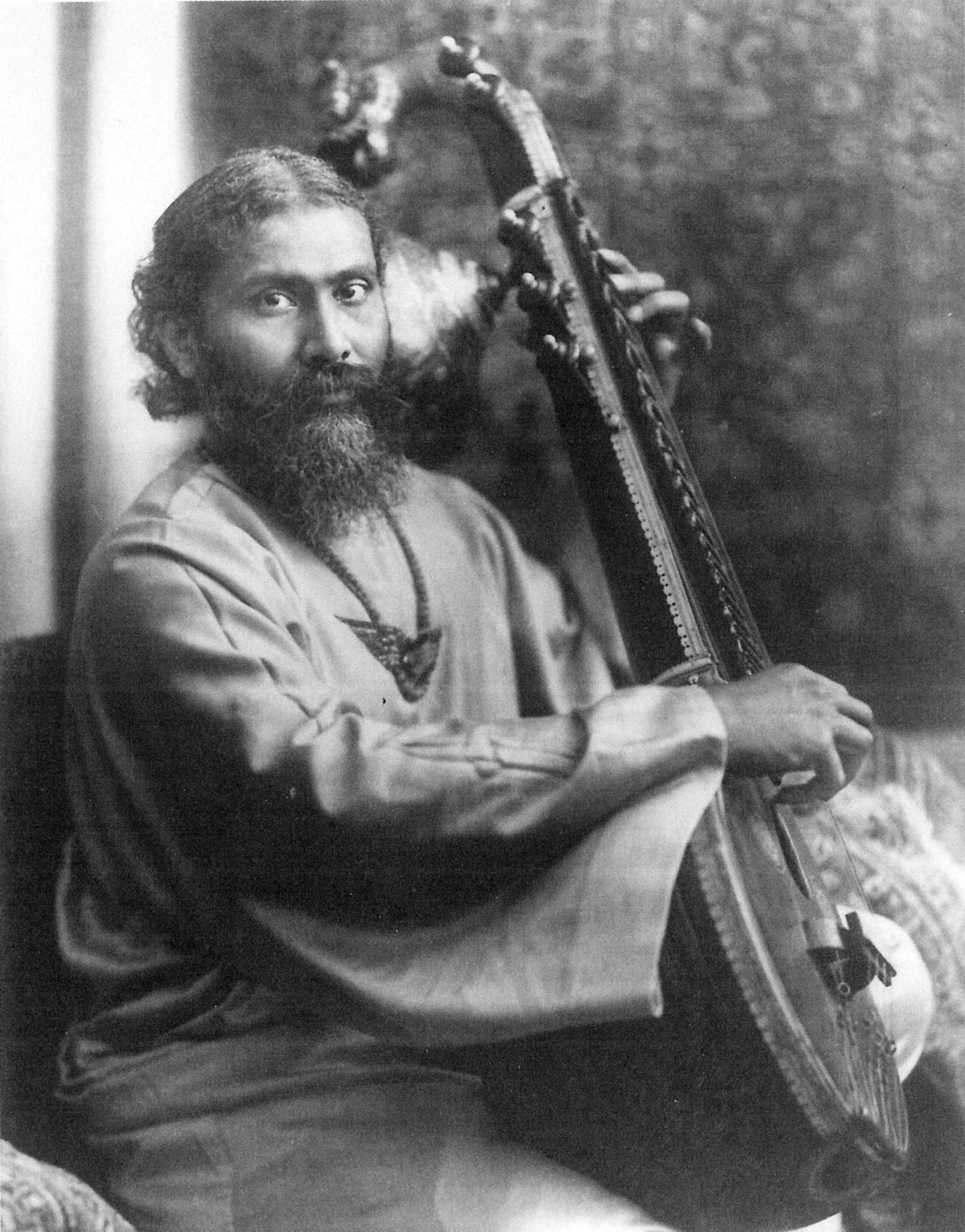 Hazrat Inayat Khan playing a Vina